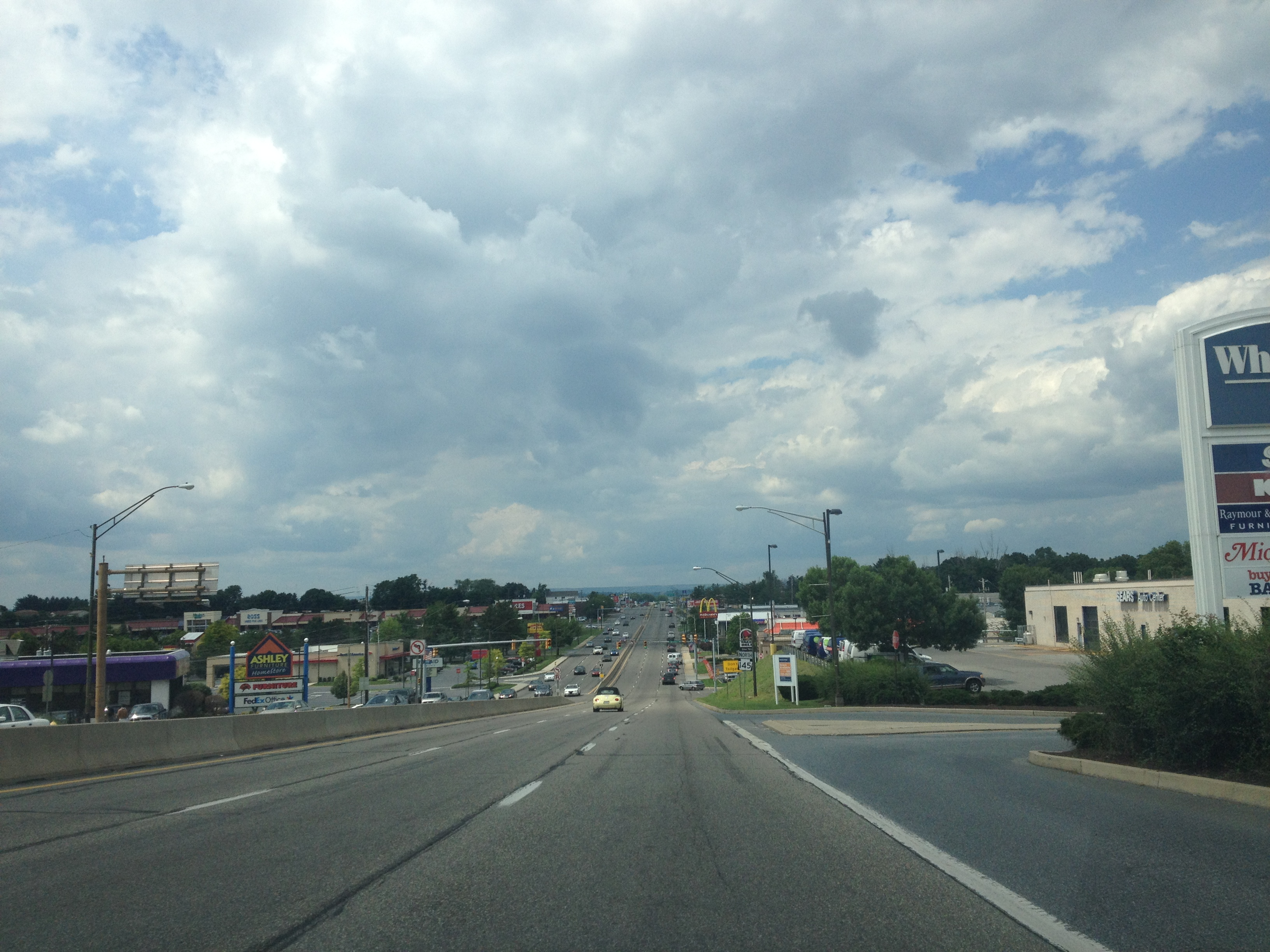 Northbound Pennsylvania Route 145 (MacArthur Road) past the intersection with Grape Street in Whitehall.